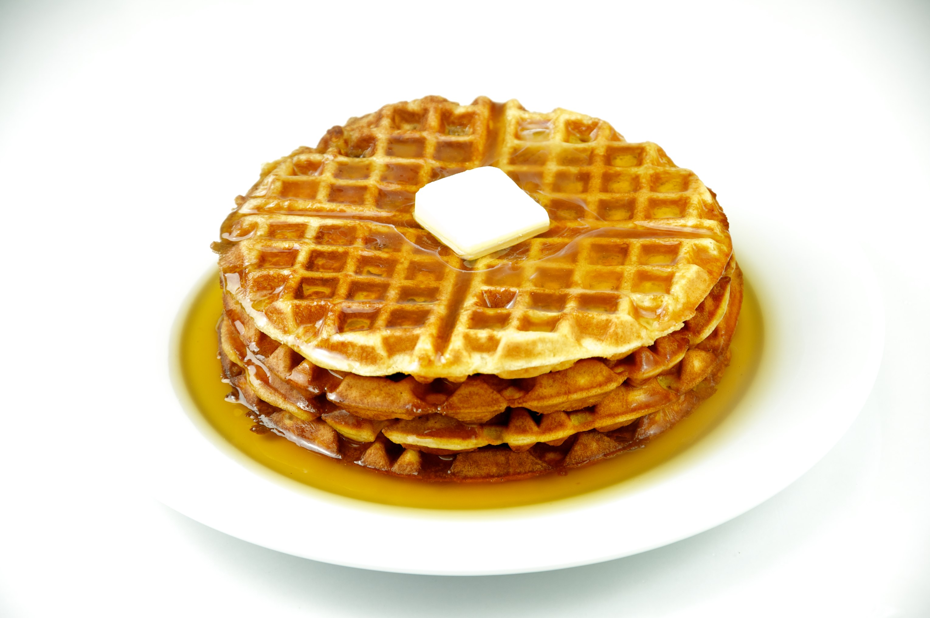 Waffles with maple syrup and butter on a white plate and shot on a white background.